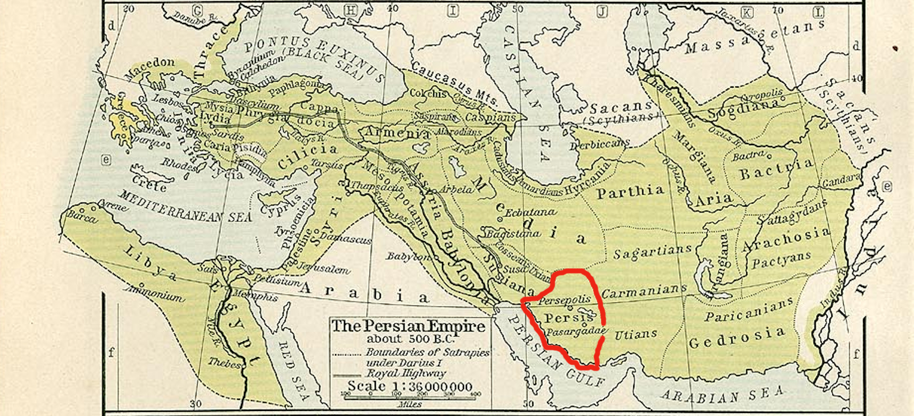 Persis map